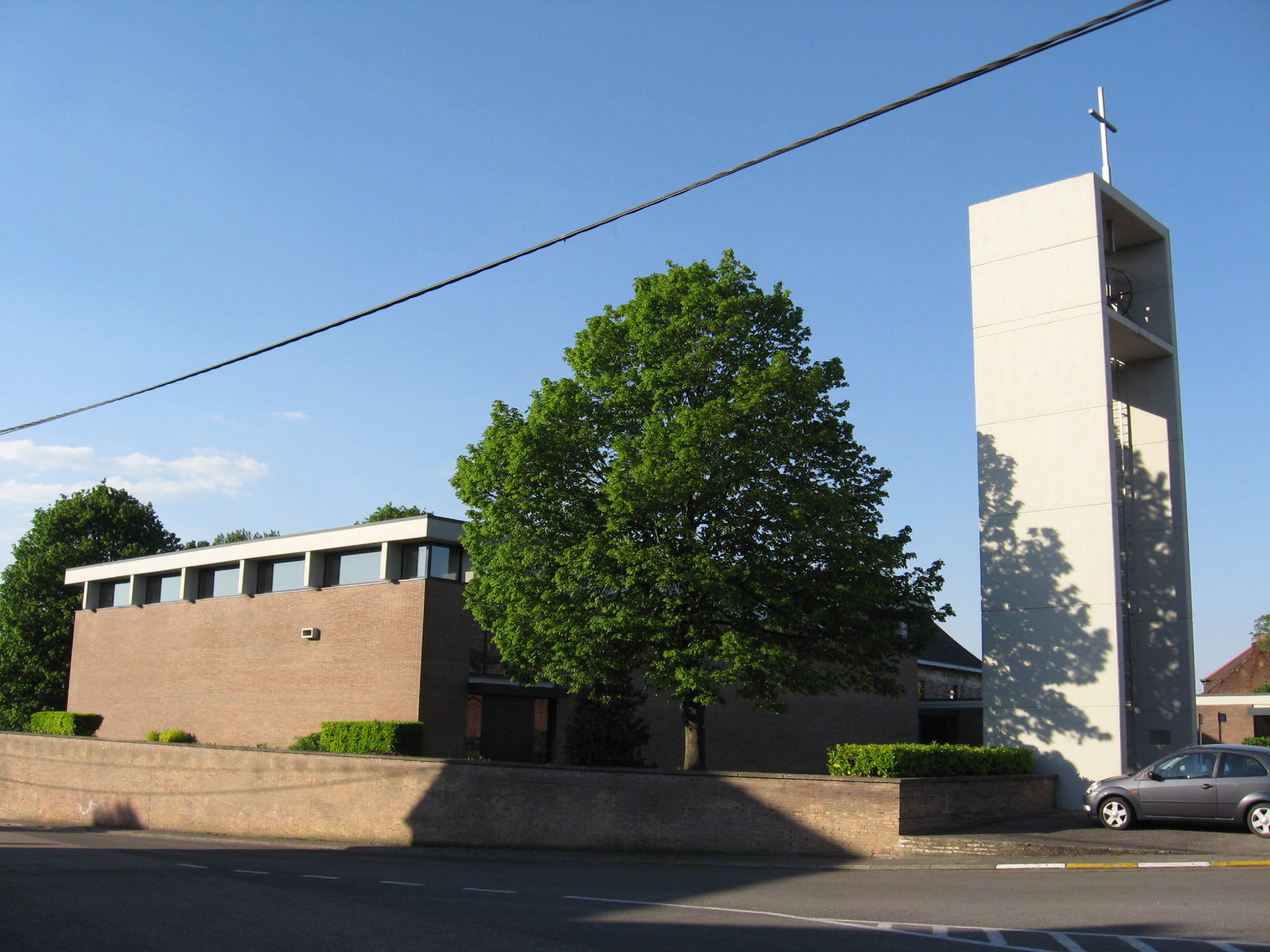 Church of Saint Lambert in Walshoutem, Landen, Flemish Brabant, Belgium